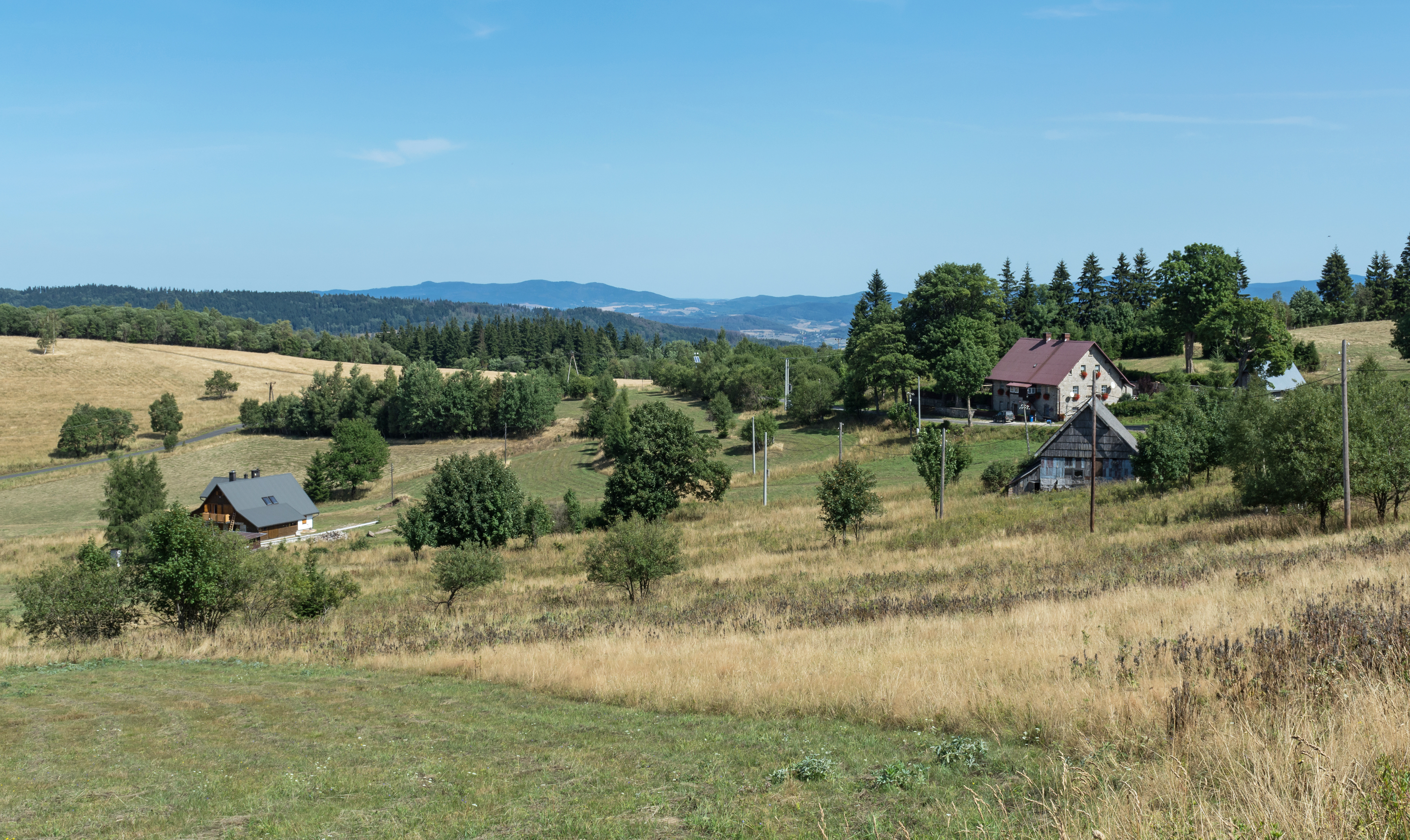 Spalona, Bystrzyckie Mountains, Sudetes